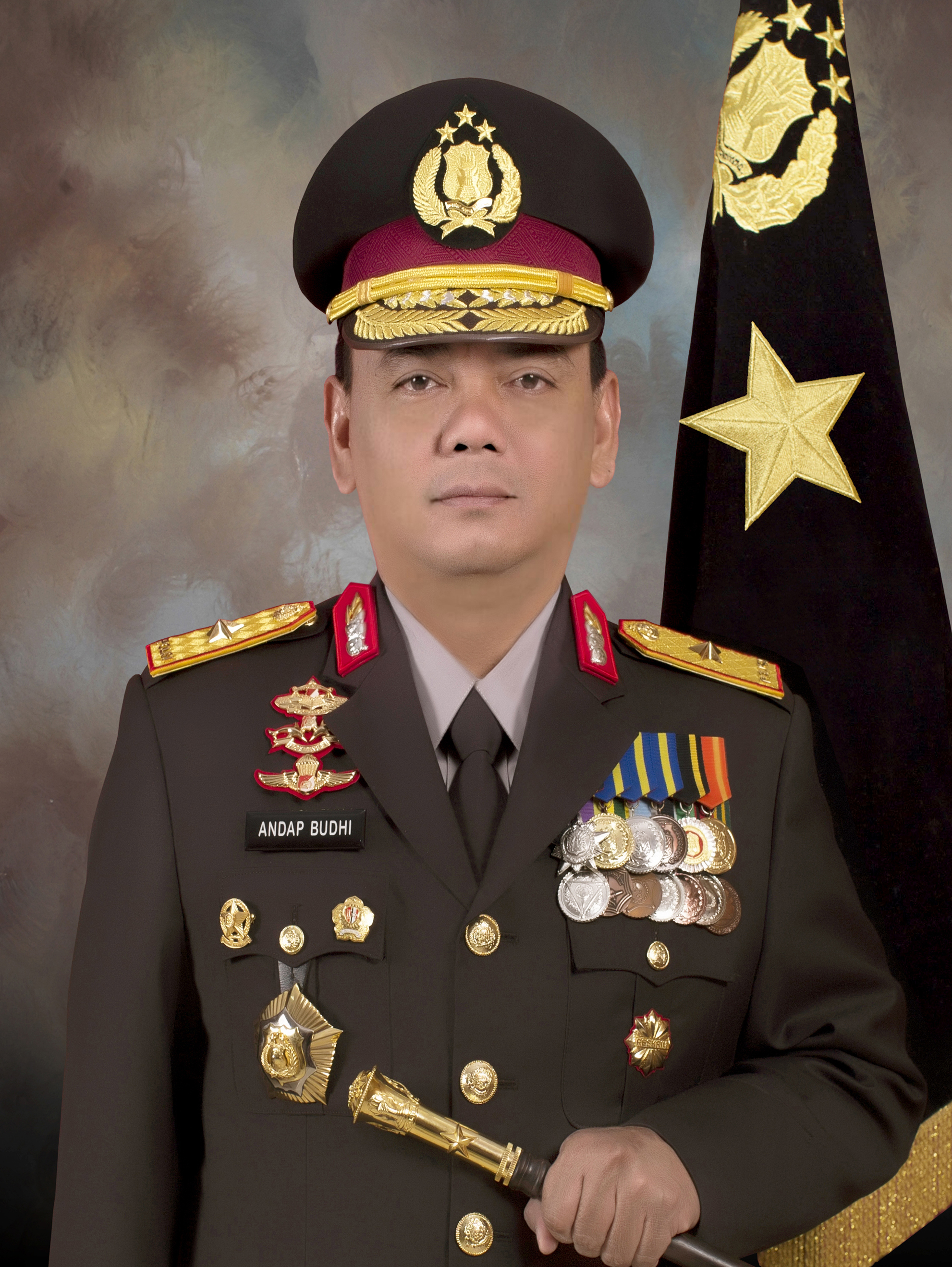 Chief of Southeast Sulawesi Regional Police, Brigadier General Andap Budhi Revianto in 2017.